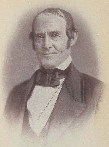 Samuel O. Peyton, Representative from Kentucky, Thirty-fifth Congress, half-length portrait